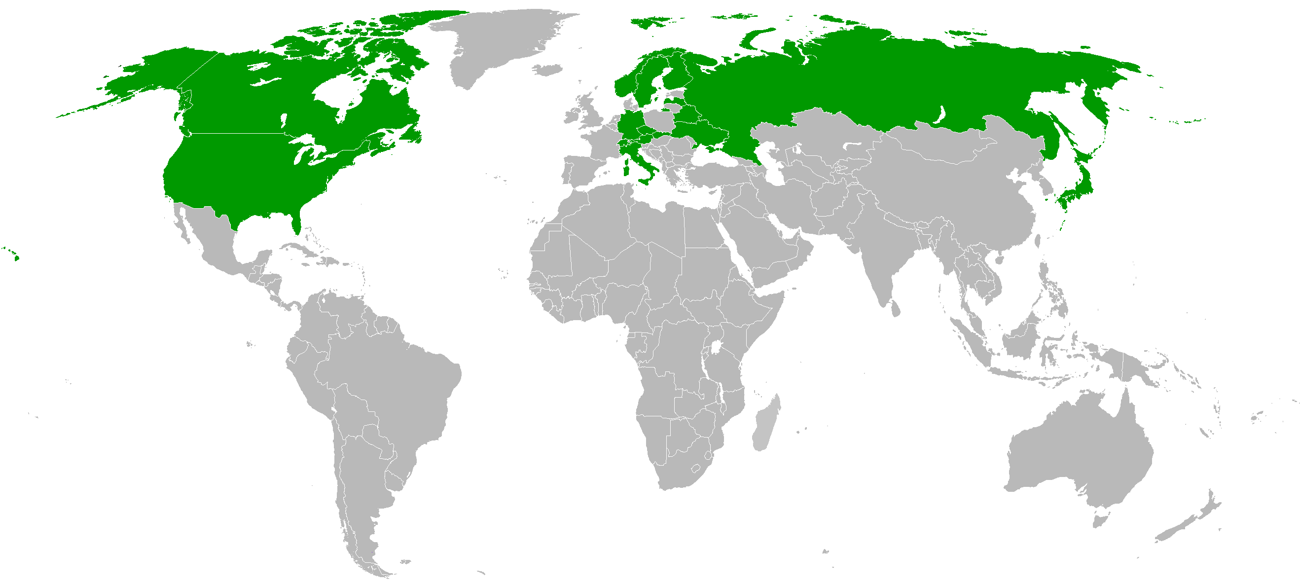 Countries participating in the 2001 IIHF World Championship.